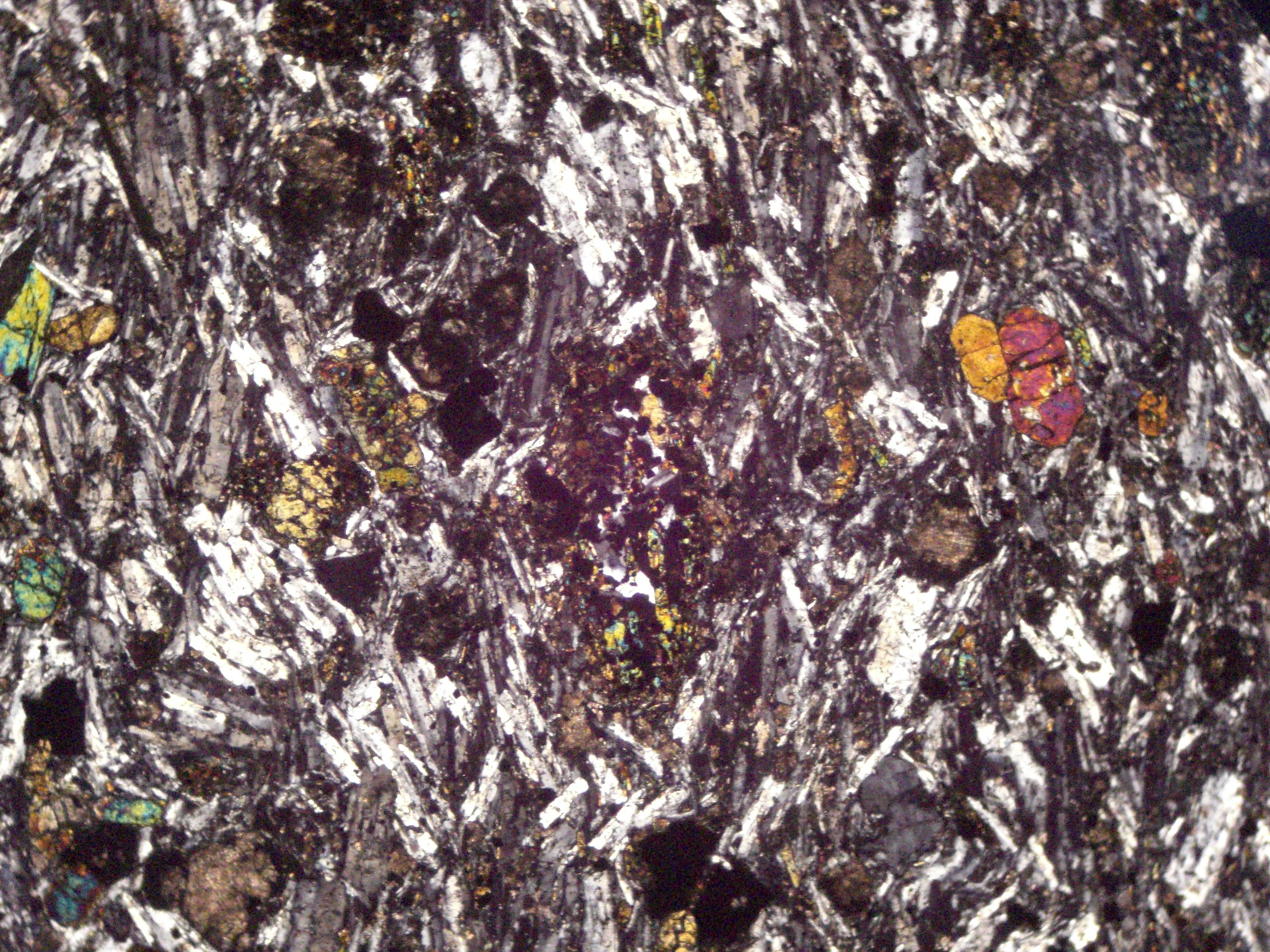 Igneous rock trachyte. Photomicrograph with crossed polars.